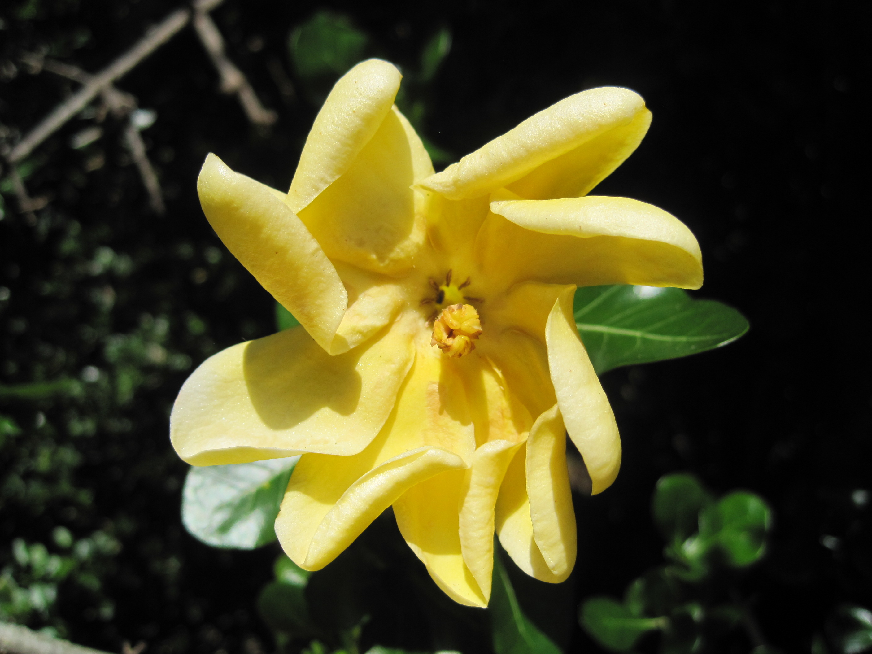 Flower of Transvaal gardenia (Gardenia volkensii), Koko Crater Botanical Garden, Honolulu, Hawaii, USA